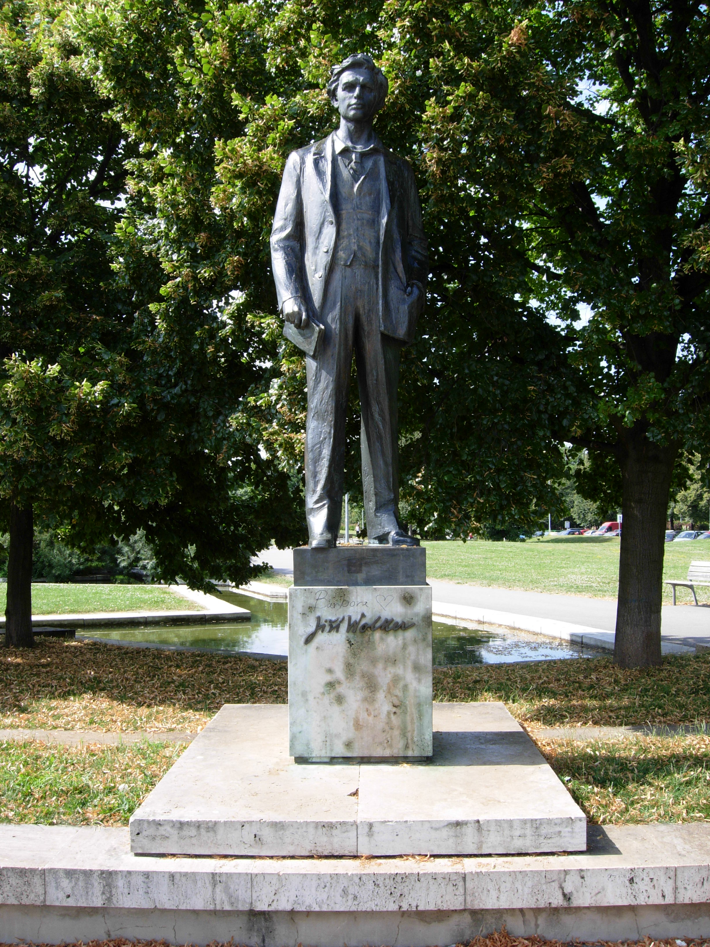 Statue of Jiří Wolker in park Přátelství in Prague, Prosek.